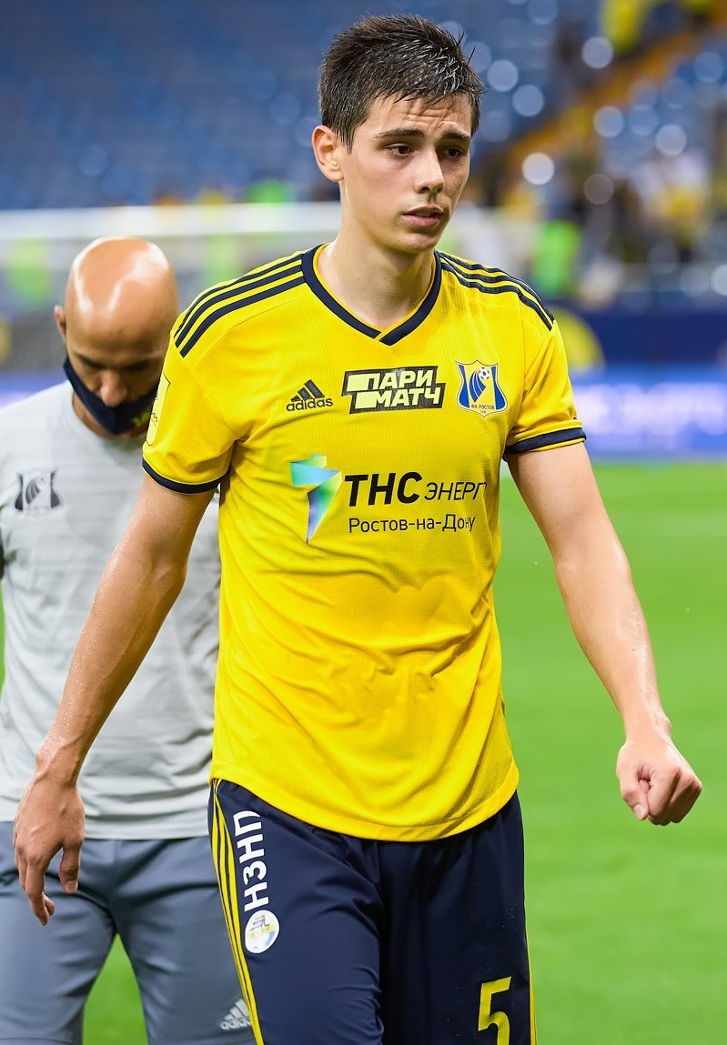 Dennis Hadžikadunić with FC Rostov after the game against FC Ufa.